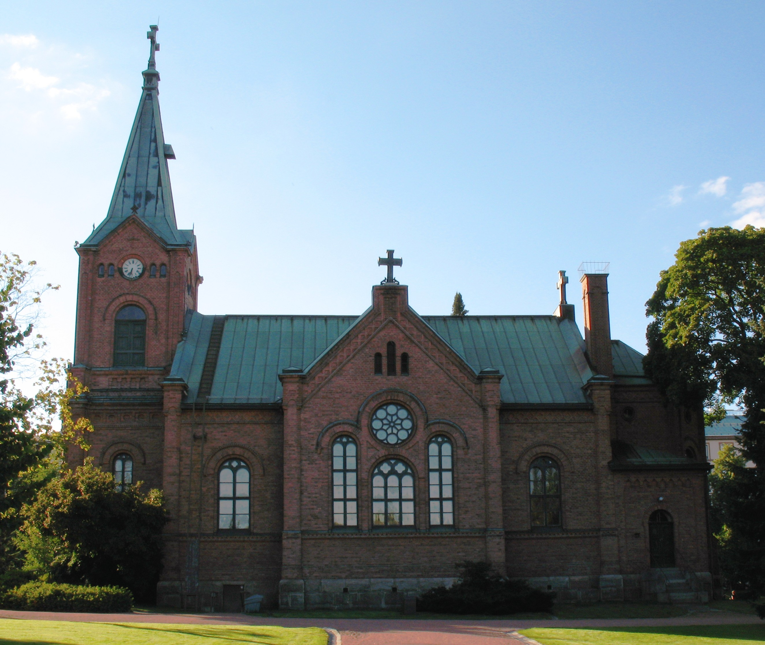 Jyväskylä Church, Jyväskylä, Finland